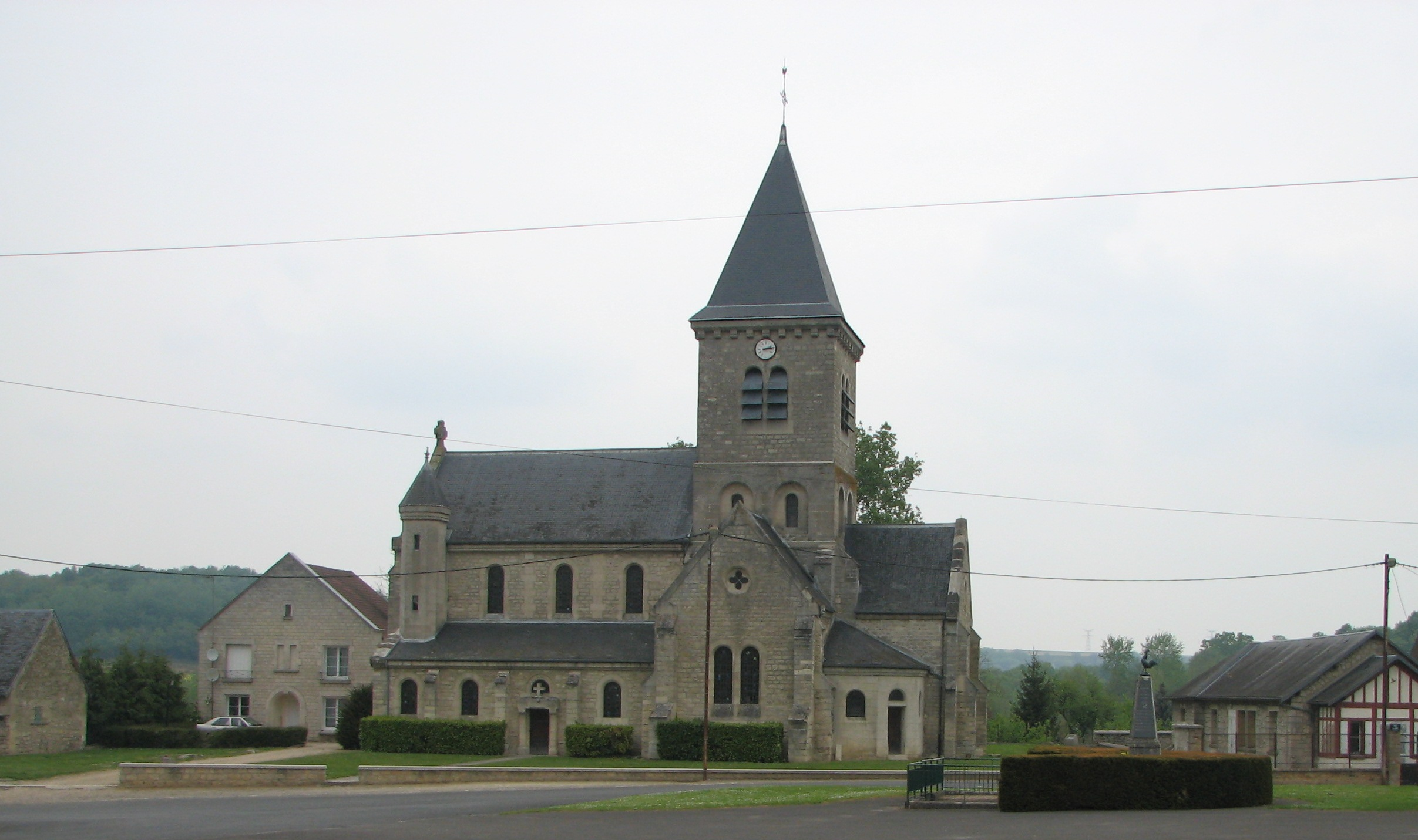 Margival church in the French departement de l'Aisne with the war memorial on the right